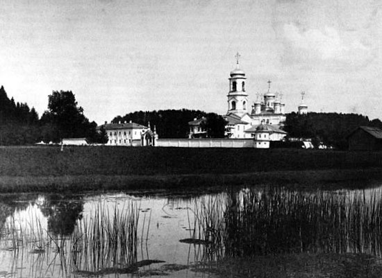 Panorama of Pavlo-Obnorsky monastery, early_1900 photo